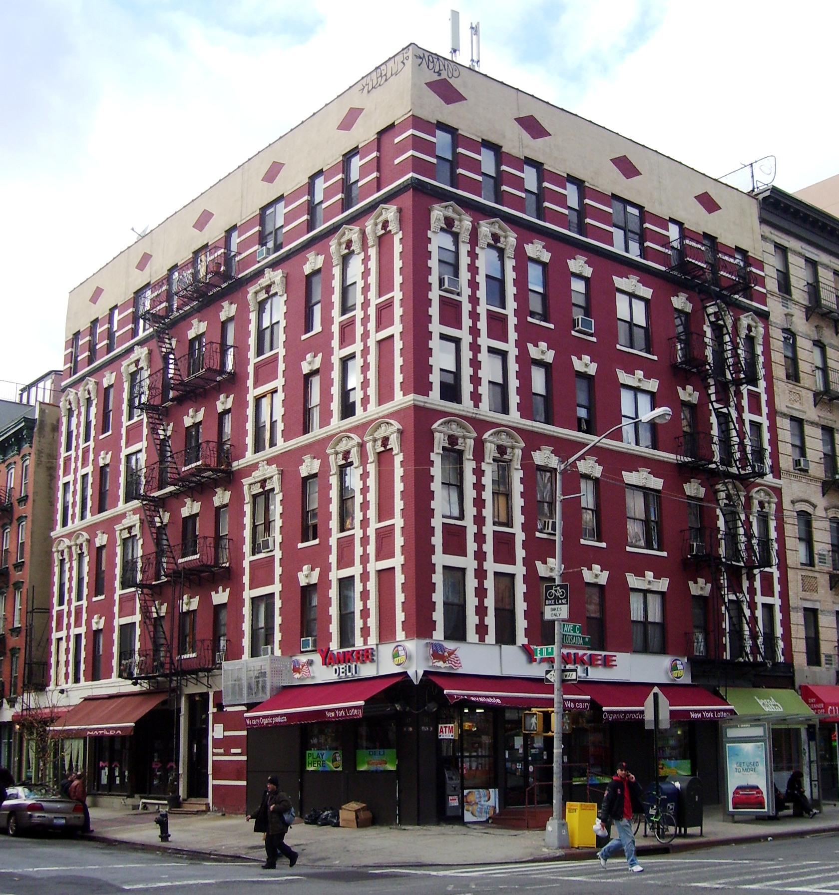 647 East 11th Street, also known as 181 Avenue C, in the Alphabet City area of the East Village neighborhood of Manhattan, New York City, was built c.1910. [NYC GIS map])